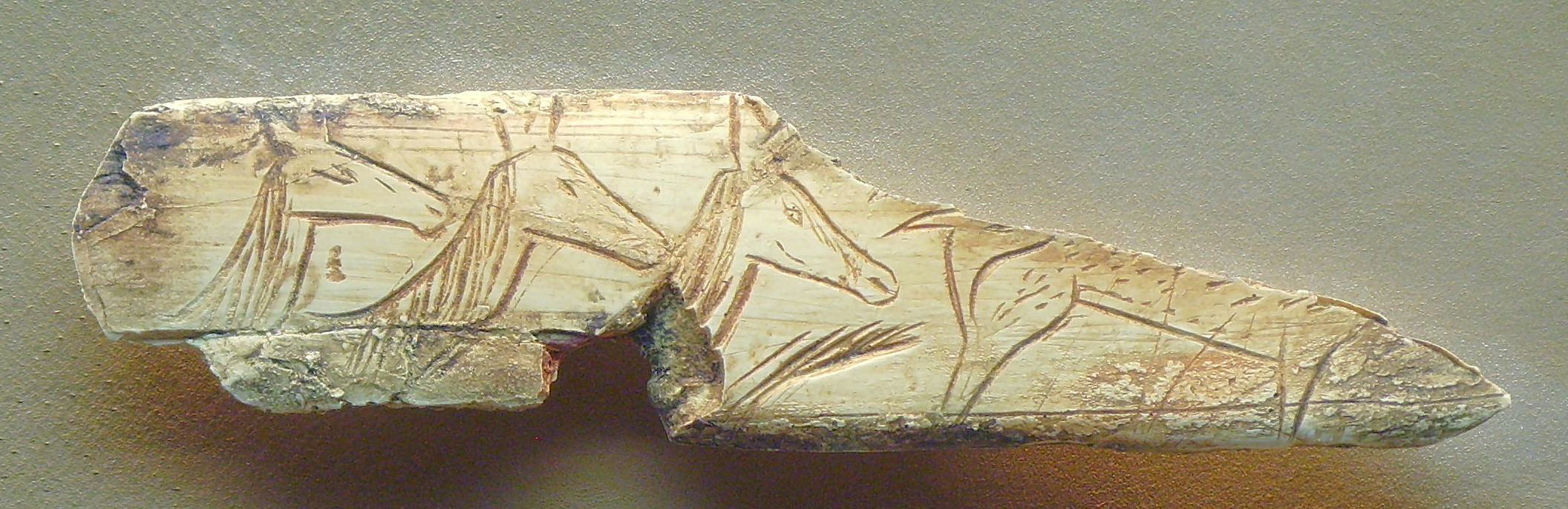 Aven d'Orgnac, musée de Préhistoire, F-07150 ORGNAC-L'AVEN: three heads of hinds, engraved on a bone of another deer; from: Grotte des Deux Avens, Vallon-Pont-s'Arc, ~12.000 B.P.